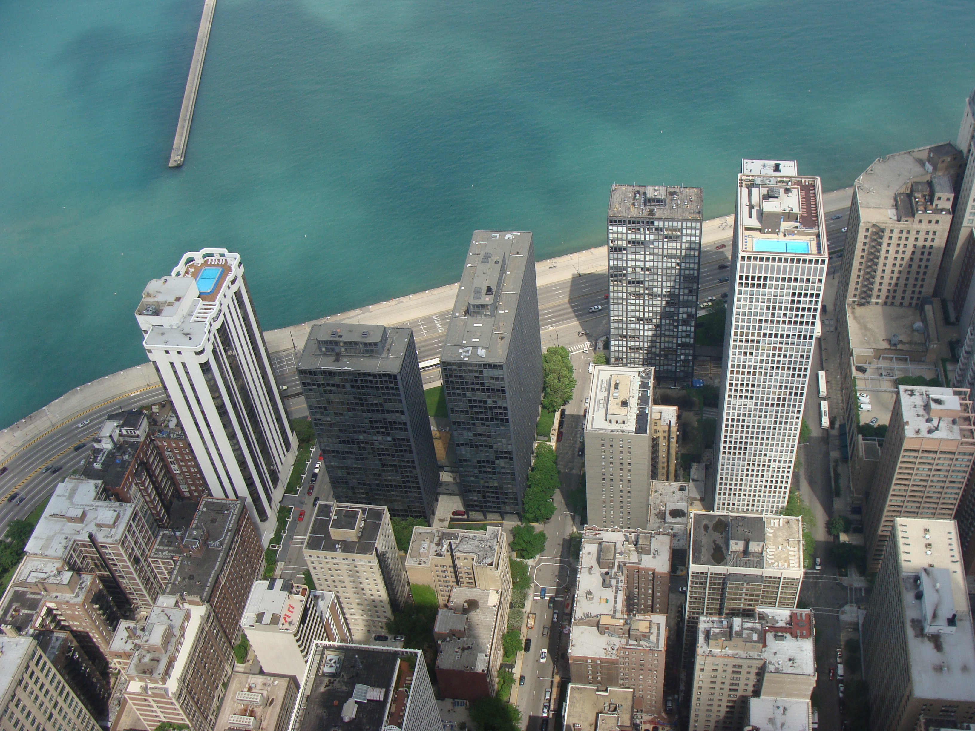 A view towards the east from the observation deck at the John Hancock Center in Chicago.